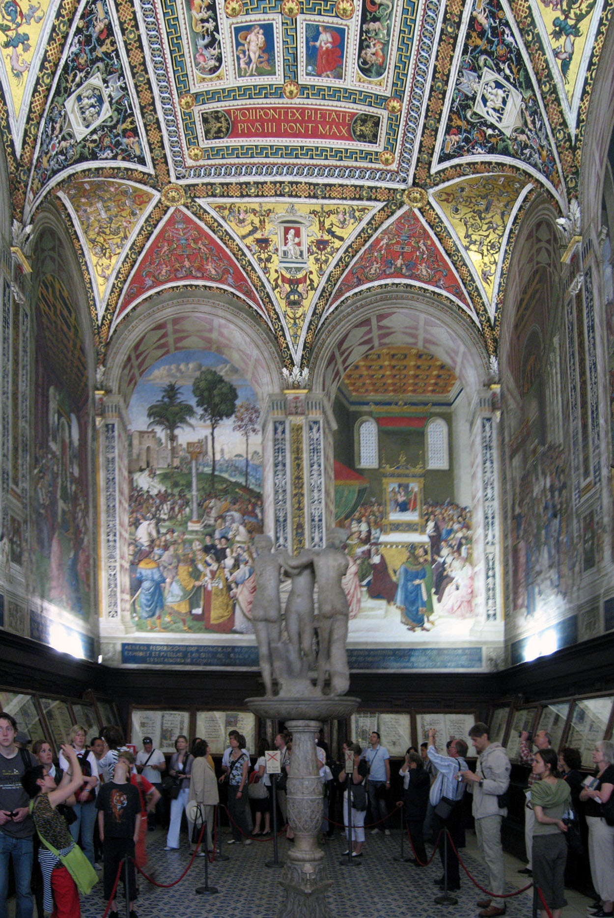 Piccolomini Library in Siena Cathedral